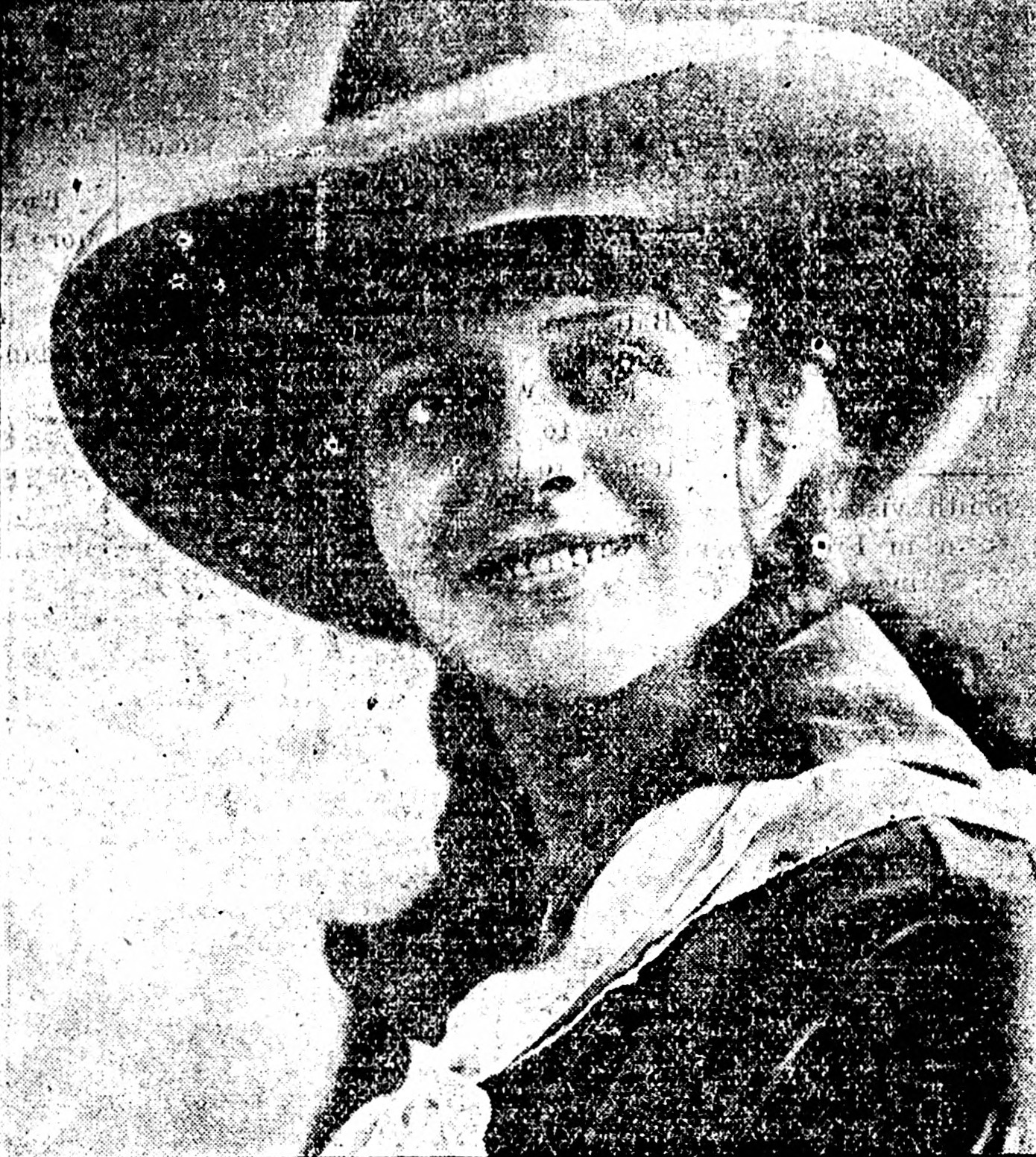 Helen Gibson depicted in a newspaper